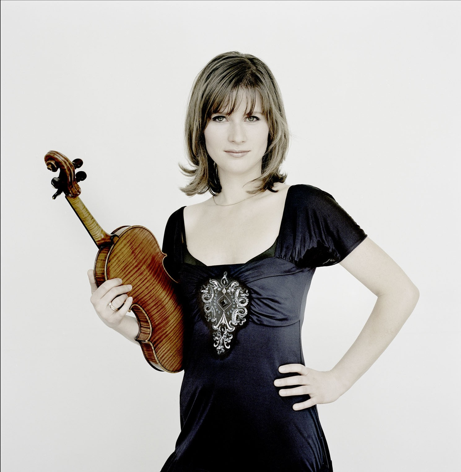 Portrait of Lisa Batiashvili